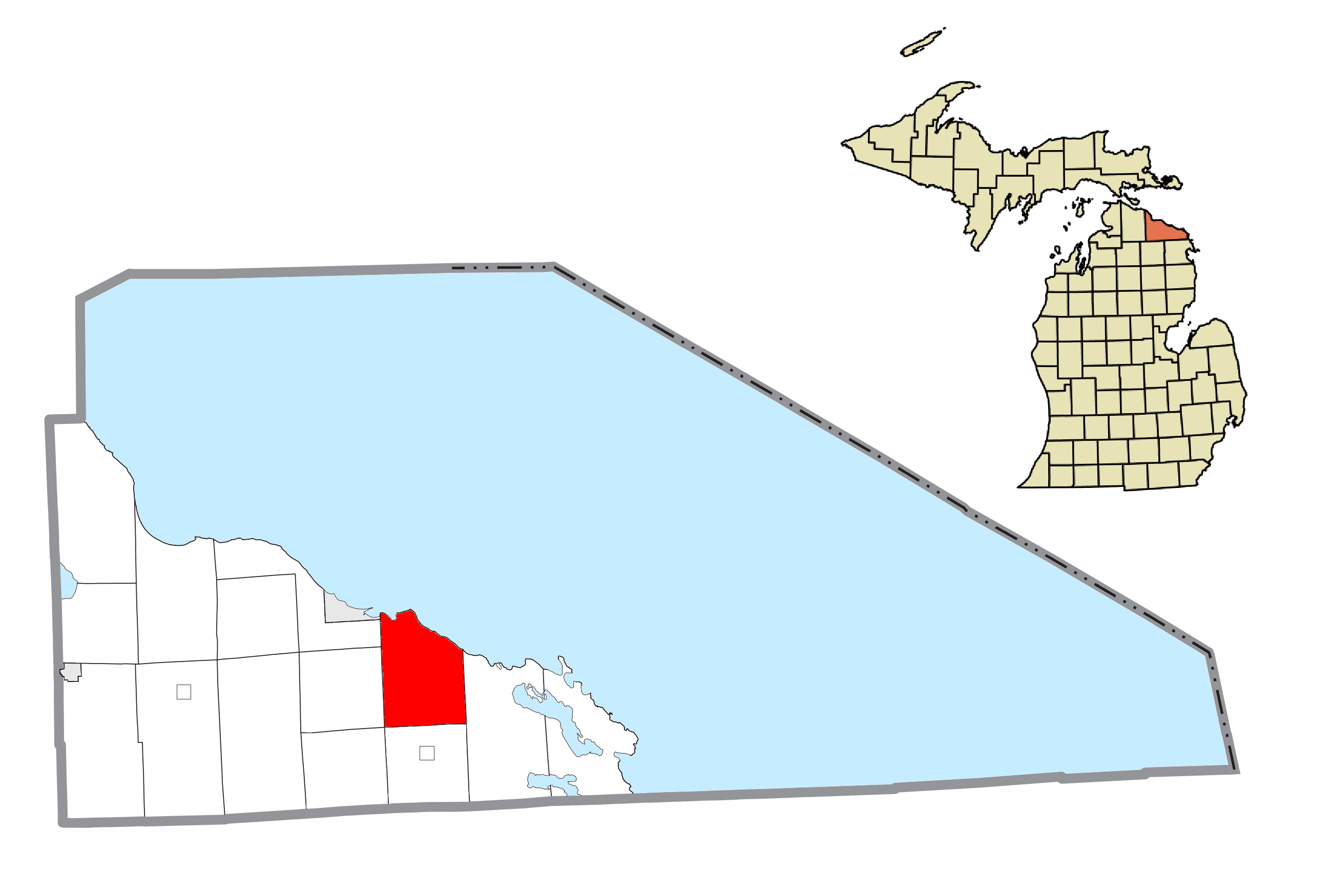 Pulaski Township, MI